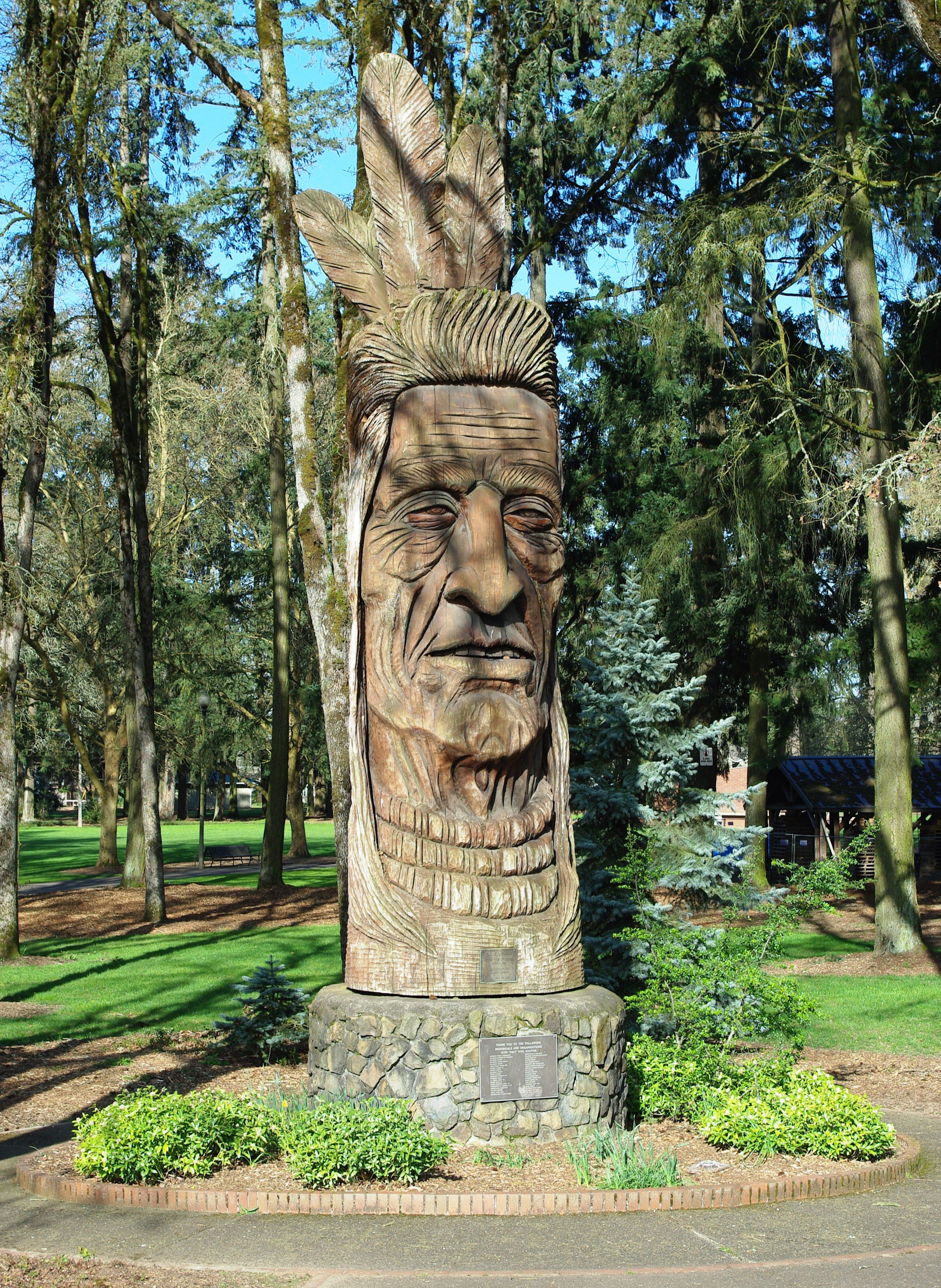 Side view of Chief Kno-Tah in Hillsboro, Oregon, USA.